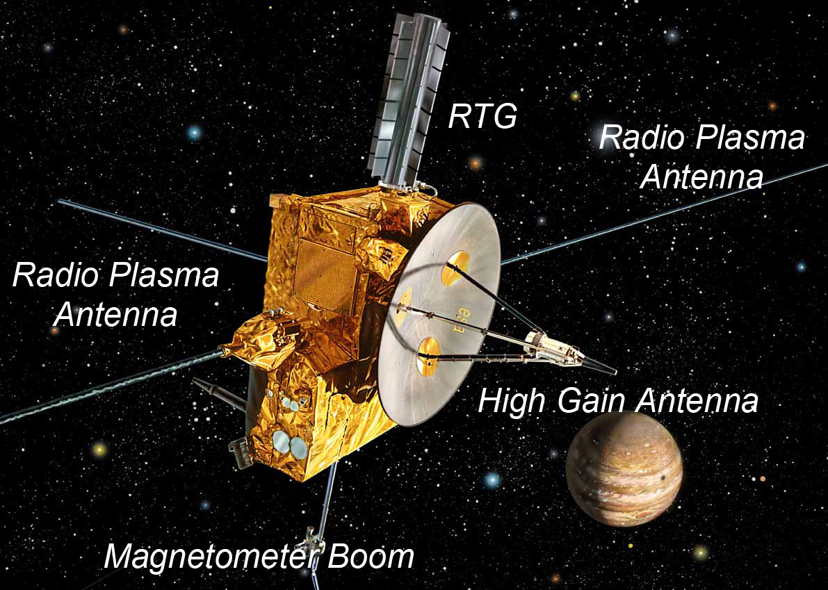 The parts of Ulysses are schown on this picture.